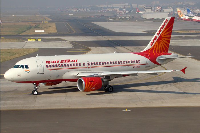 Air India (Erstwhile Indian Airlines) A319 taxies at Mumbai airport for a departure.